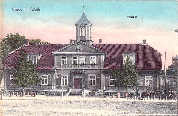 Valga Town Hall